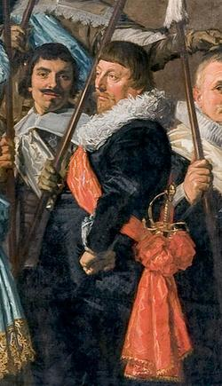 Florens van der Hoeff, detail of Officers and sub-alterns of the St George Civic Guard, Haarlem